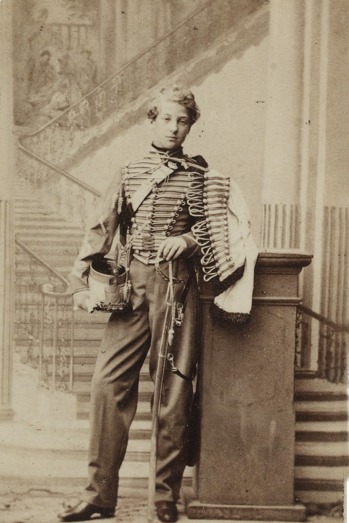 Prince Ferdinand, Duke of Alençon (1844-1910)